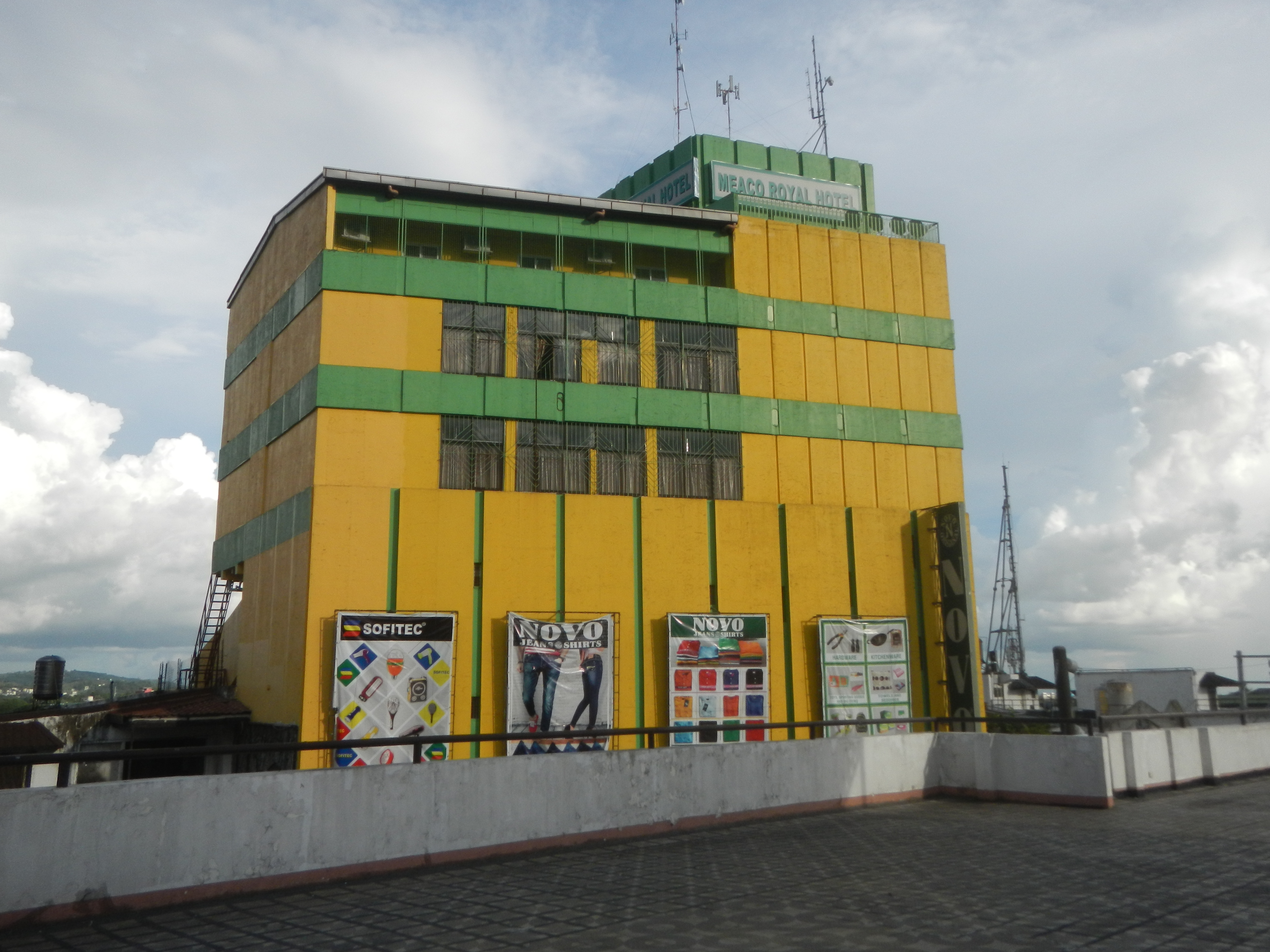 Novo - Meaco Royal Hotel (Dolores Poblacion, Taytay, Rizal) Taytayeños Ancestral Home (Taytay Municipal Plaza - Old Town Hall) Facade and interior of the Saint John the Baptist Parish Church (San Isidro Poblacion, Taytay, Rizal) St. John the Baptist Parochial School (Taytay, Rizal) St John the Baptist Church (Taytay, Rizal) Roman Catholic Diocese of Antipolo San Isidro, Taytay, Rizal Barangay San Isidro 14°34'43"N 121°8'6"E Dolores (Poblacion) 14°34'29"N 121°8'51"E Taytay, Rizal from Ortigas Avenue Extension (Cainta-Taytay, Rizal) Ortigas Avenue; (Note: Judge Florentino Floro, the owner, to repeat, Donor Florentino Floro of all these photos hereby donate gratuitously, freely and unconditionally all these photos to and for Wikimedia Commons, exclusively, for public use of the public domain, and again without any condition whatsoever).